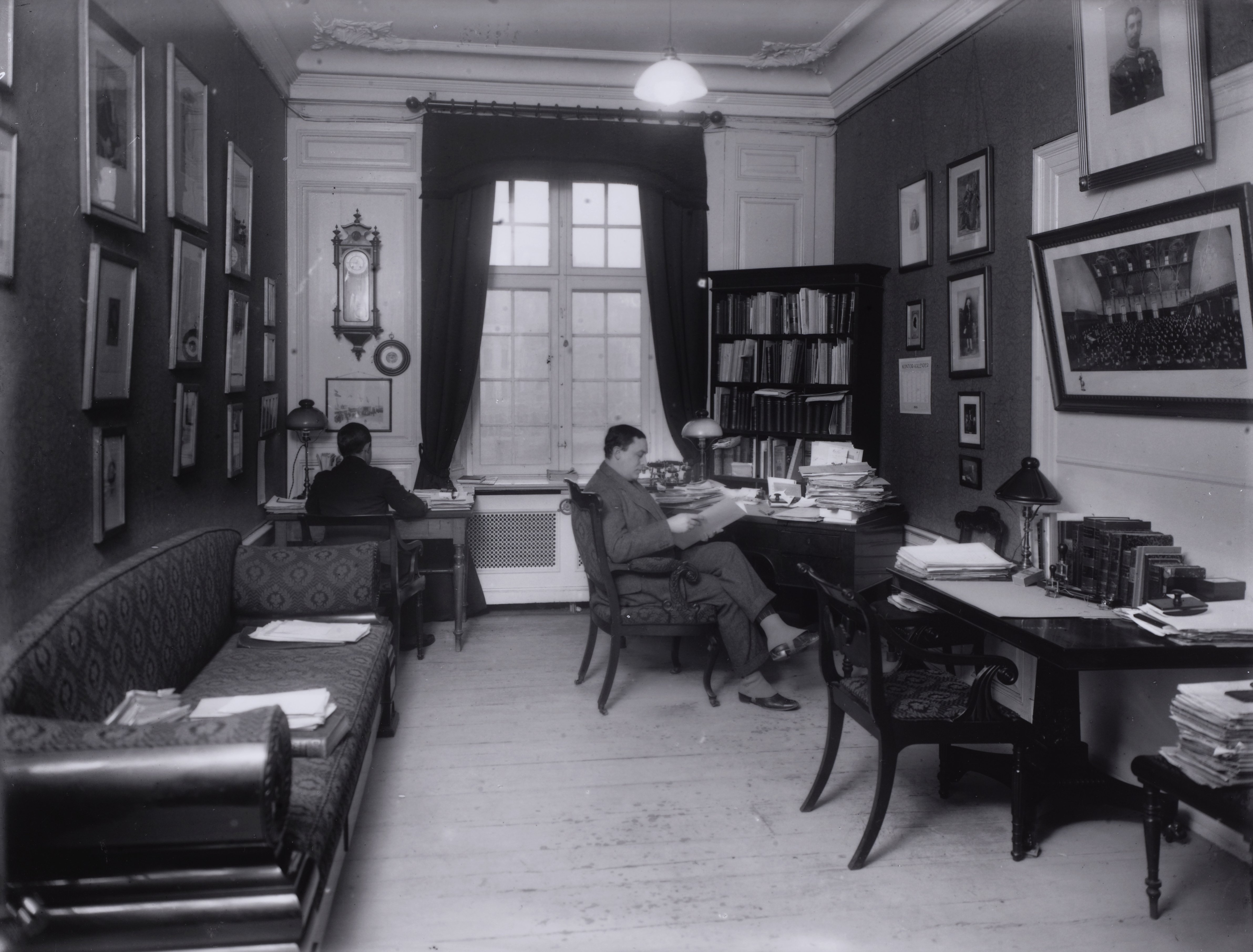 Udenrigsministeriet: Kontor (Kontorchef Rotböll); 1915 Elfelt Fot.